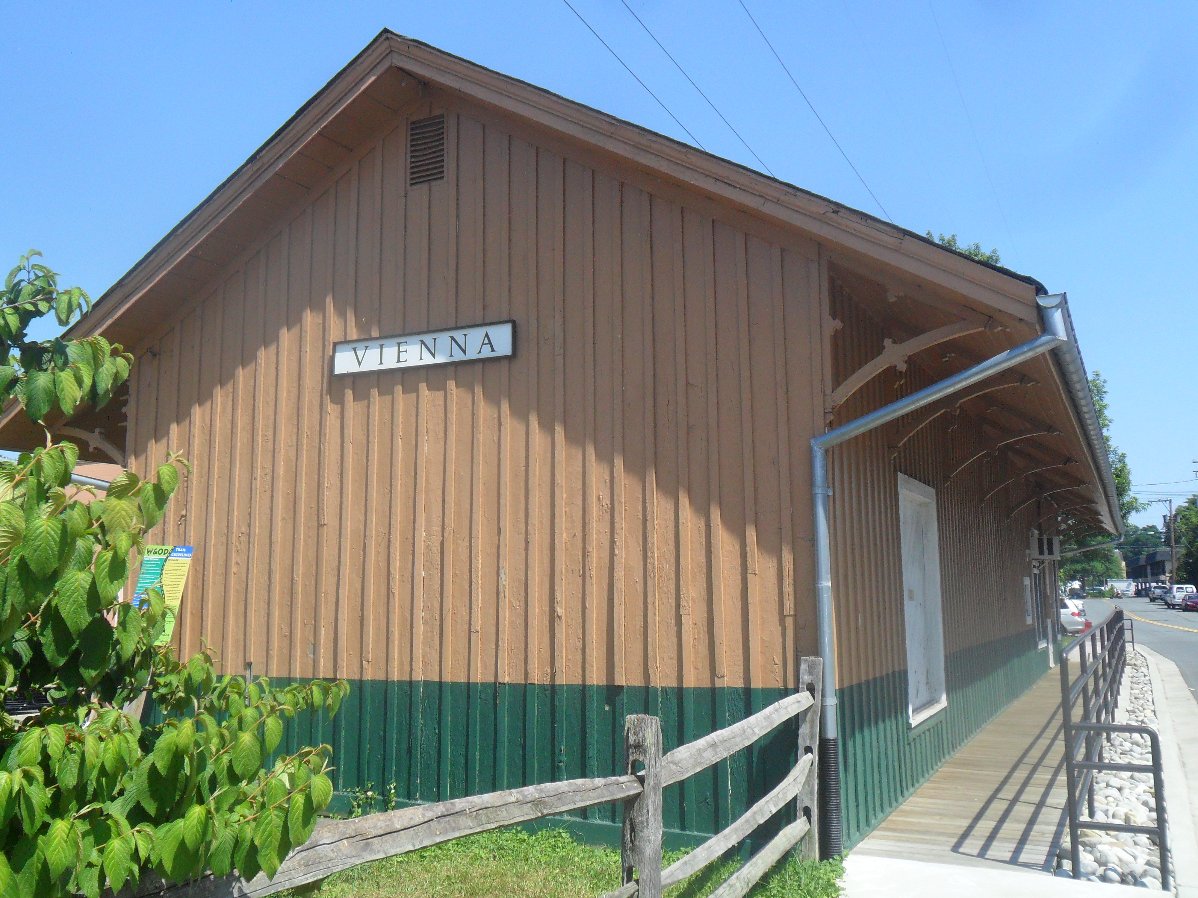 Former railroad depot from the Washington & Old Dominion Railroad in Vienna, Virginia. Built by the Alexandria, Loudoun, and Hampshire Railroad in 1859. Currently used by the Northern Virginia Model Railroaders